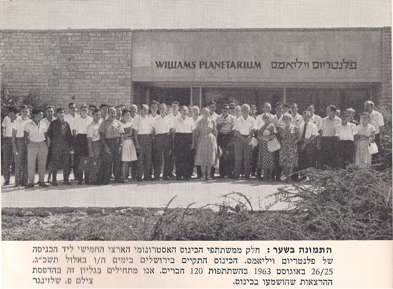 חלק ממשתתפי הכינוס האסטרונומי החמישי ליד פלנטריום ויליאמס, זיצ'ק ורעייתו ראשונים מימין, אוגוסט 63